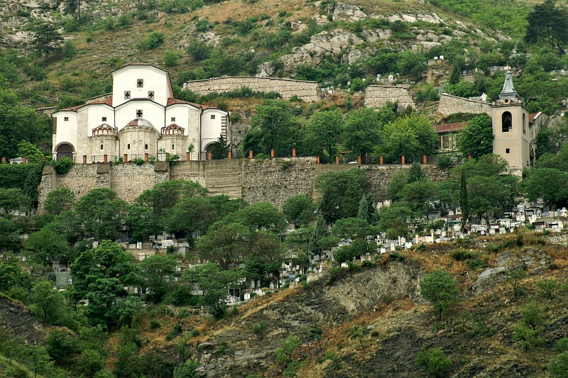 Church of Saint Panteleimon, south of Veles